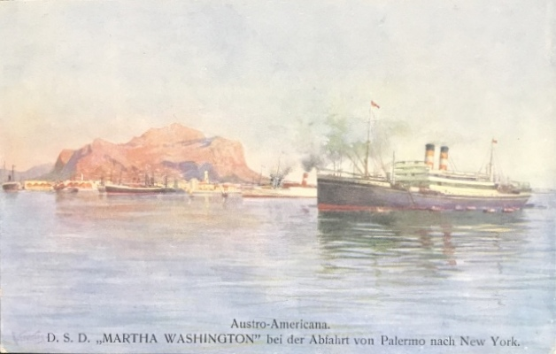 SS Martha Washington of the Austro-Americana (Trieste) leaving Palermo